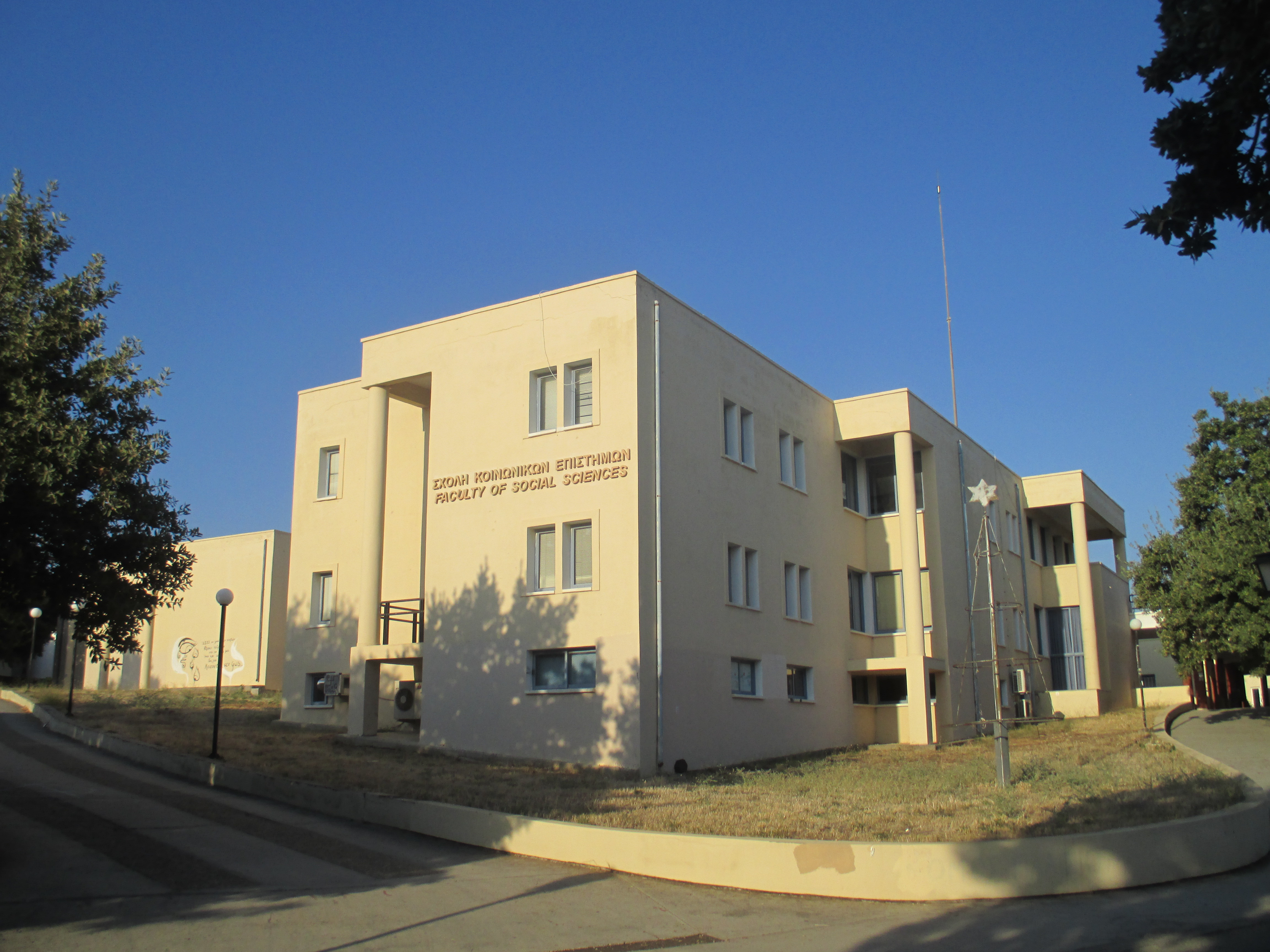 University of Crete, Rethymno Campus. Faculty of Social Sciences.